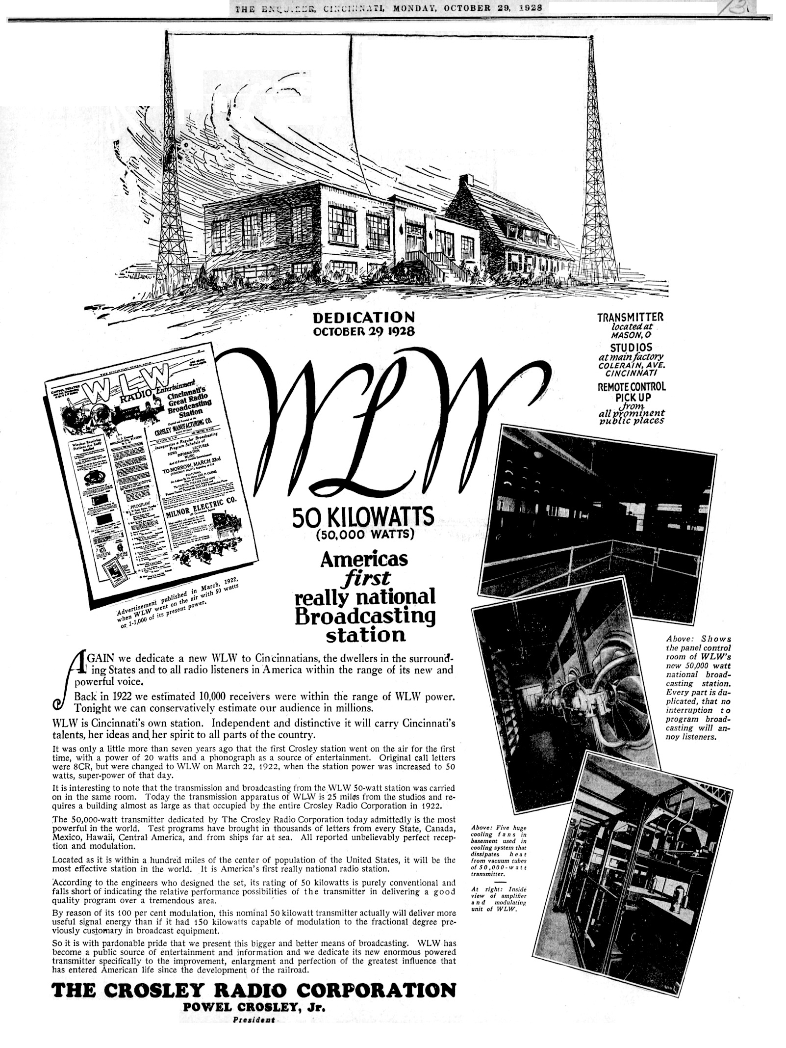 On October 29, 1928 radio station WLW in Cincinnati, Ohio dedicated its new 50,000 watt transmitter at Mason, Ohio.